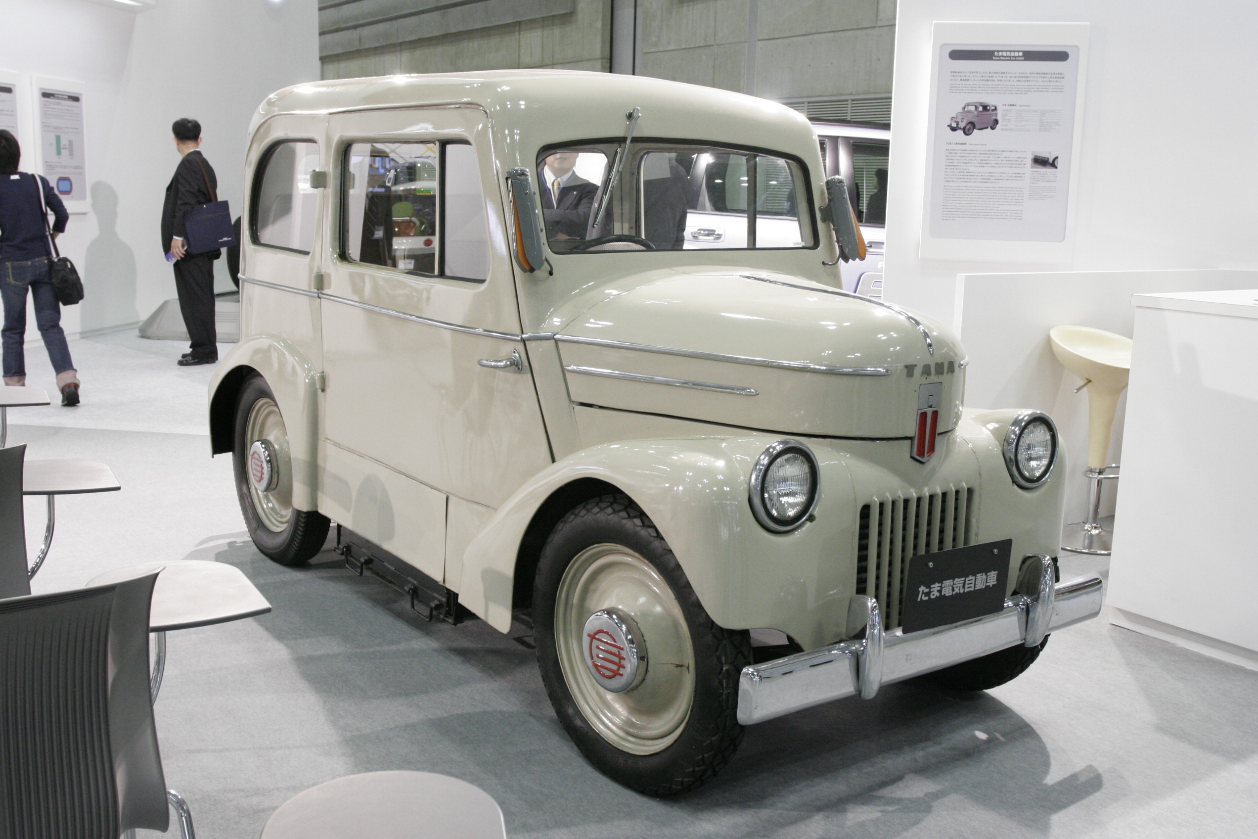 "Tama Denki Jidosha" Japanise old electrical car.built by Tokyo-Denki-Jidosha in 1947